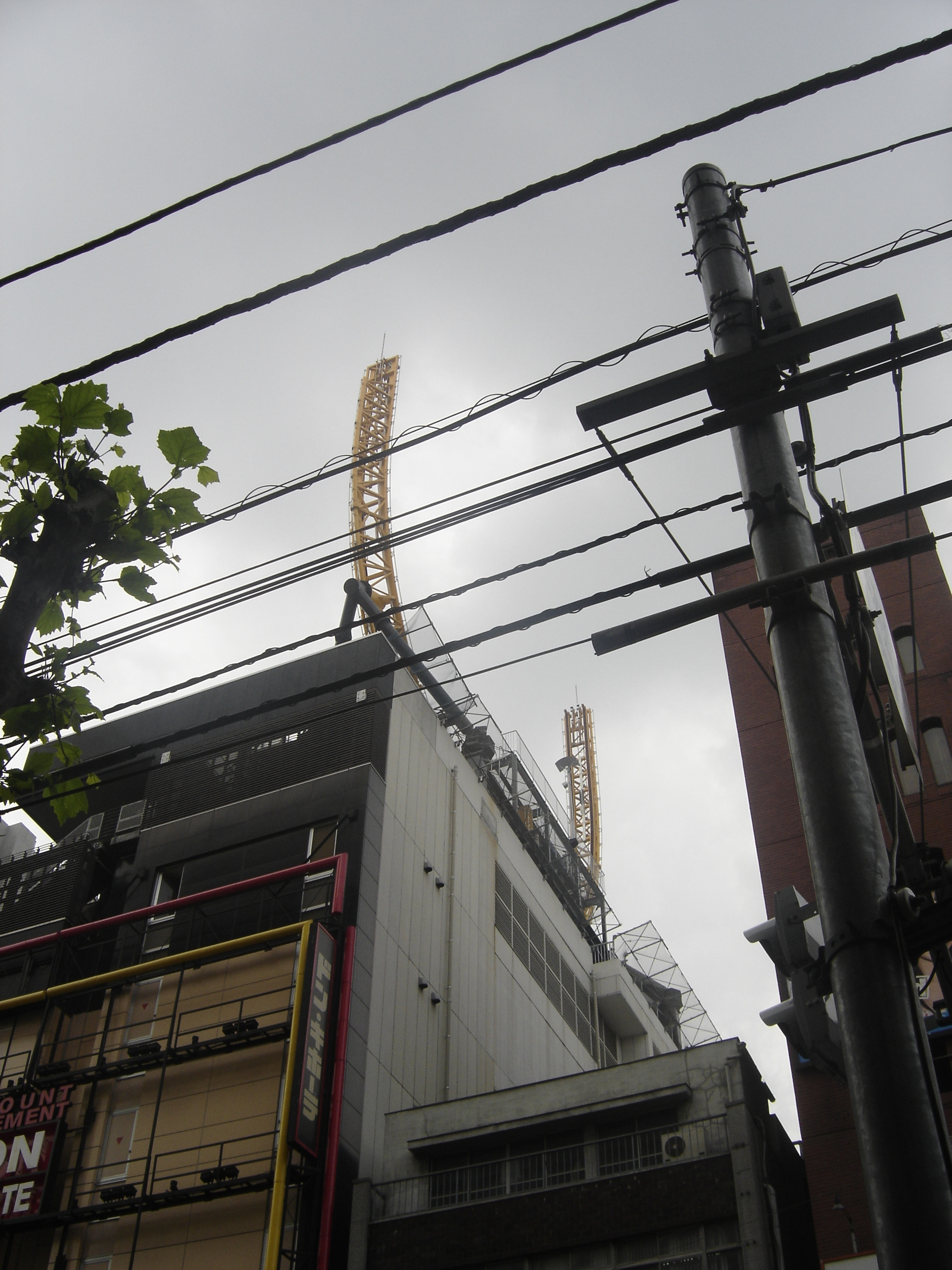 A street view of the Roppongi roller coaster that sits atop Don Quijote's eight story building in Roppongi, Tokyo, Japan.